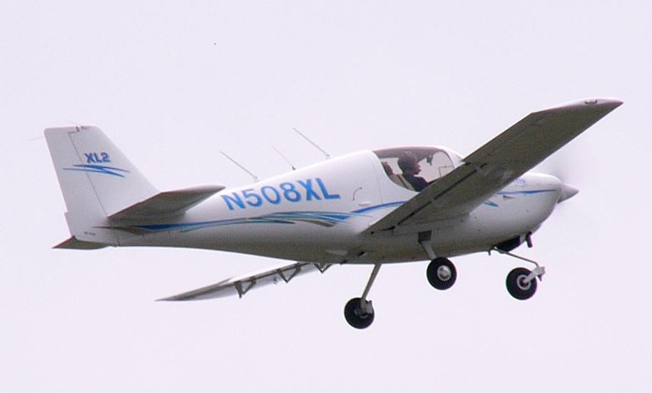 Liberty XL2 N508XL